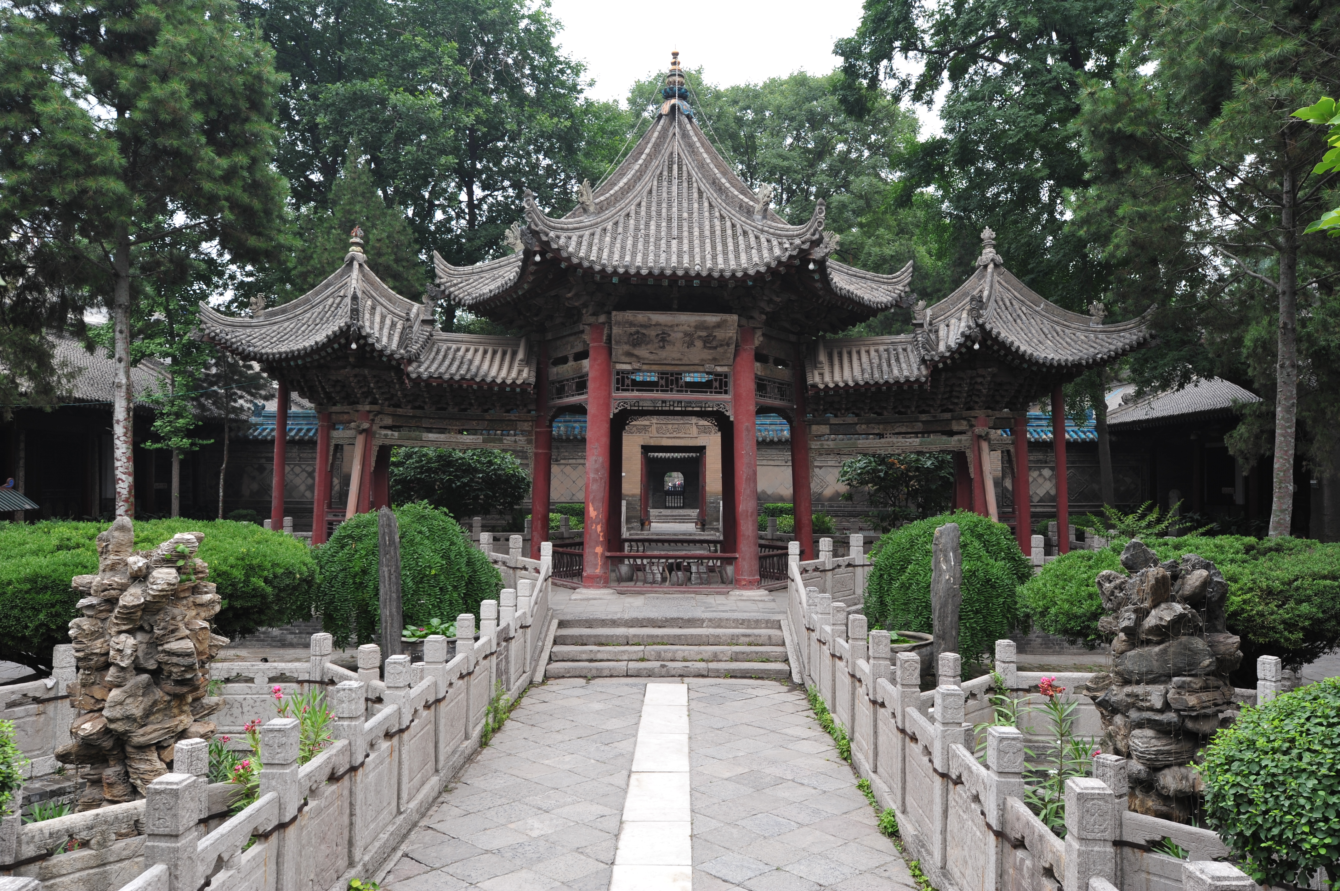 Category:Great Mosque of Xi'an — Xi'an, China. Chinese gardens, pavilions, Scholar's rocks, and walkway. 2011